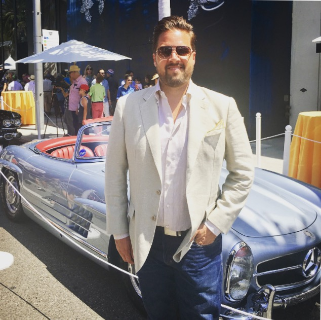 Nate Holzapfel currently resides in Los Angeles, CA where he is a highly sought after speaker, writer and business coach.